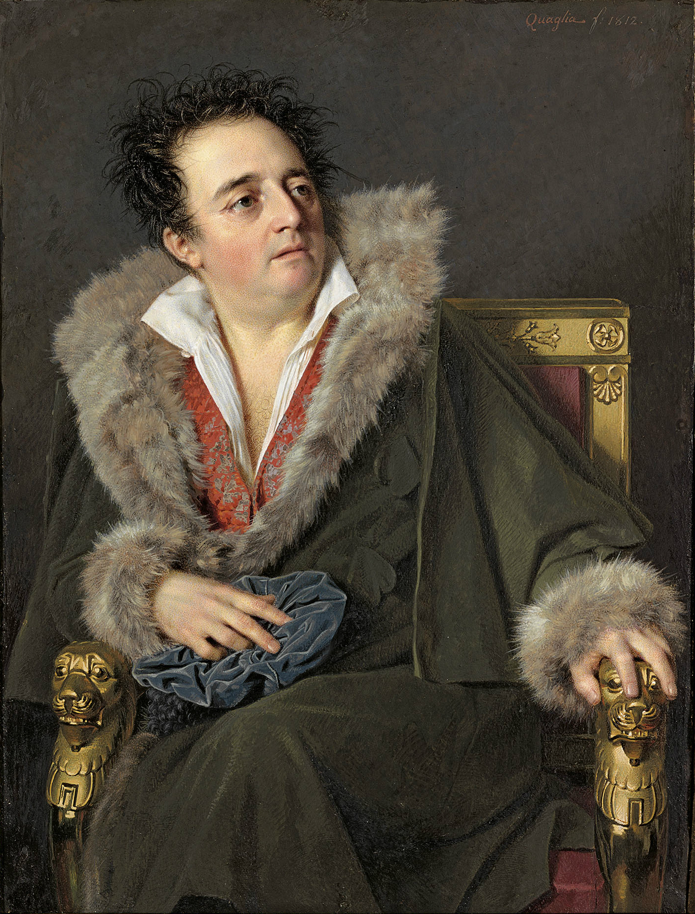 Portrait of Ignazio Degotti, celebrated scenographer at the Paris Opéra, seated in a gilded Empire fauteuil carved with lion heads, by Ferdinando Quaglia, 1812